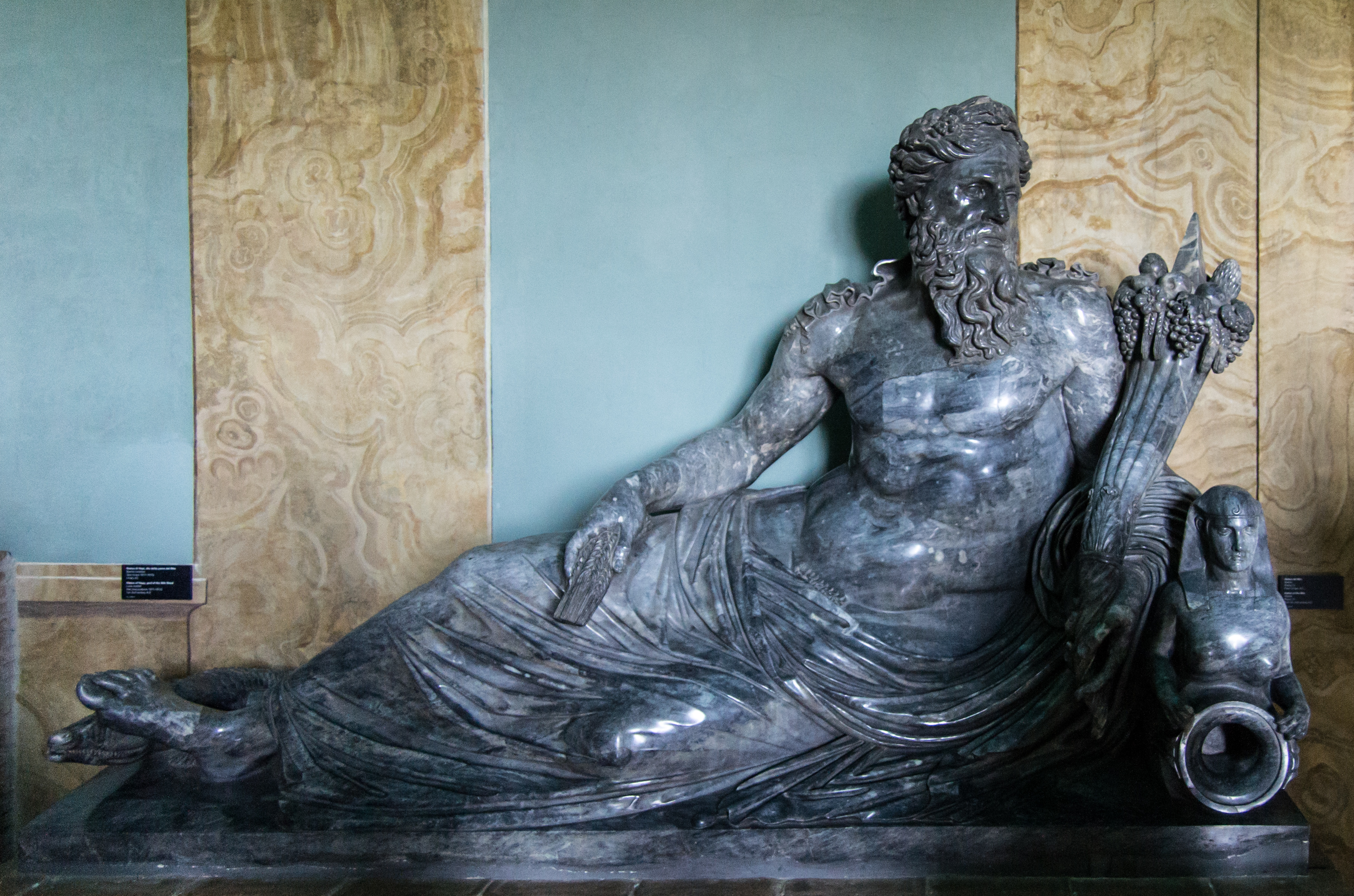 A statue of the Nile recumbent.1st-2nd century AD Rome. It is on display in room IV of the Gregorian Egyptian Museum.[1] Vatican Museums Native nameMusei VaticaniLocationVatican CityCoordinates41° 54′ 23″ N, 12° 27′ 16″ E Established1506Web page control : Q182955 VIAF: 141443926 ISNI: 0000 0001 0807 3165 GND: 235092-0 SUDOC: 032013795 BNF: 12312427s